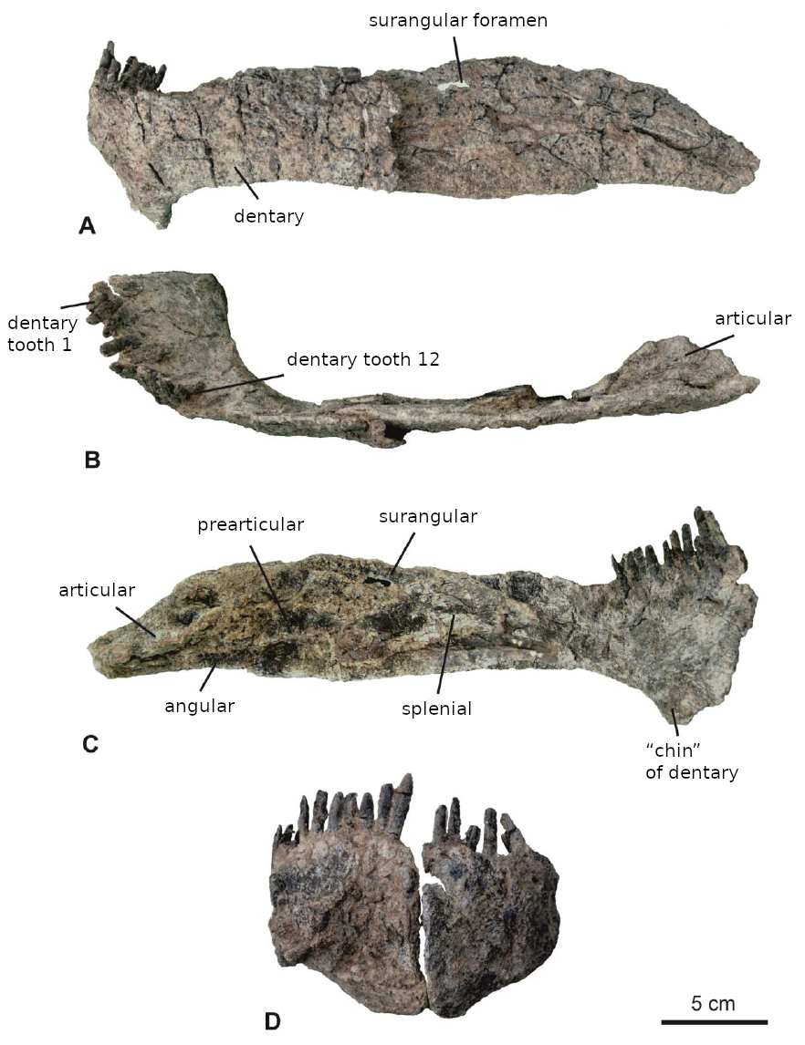 Lower jaw of Bajadasaurus pronuspinax (MMCh-PV 75). Left lower jaw in lateral (A), dorsal (B), and medial (B) views. Both dentaries’ in anterior (D) view.